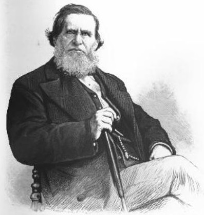 Josiah Sutherland, Judge and Congressman from New York.